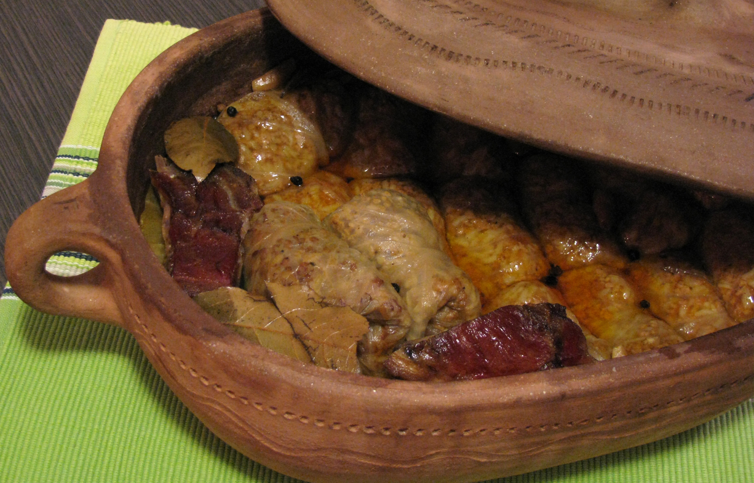 Serbian Sarma, a national speciality made of chopped meat with cabbage leaves and cooked in traditional pottery. Image taken in Belgrade, Serbia.